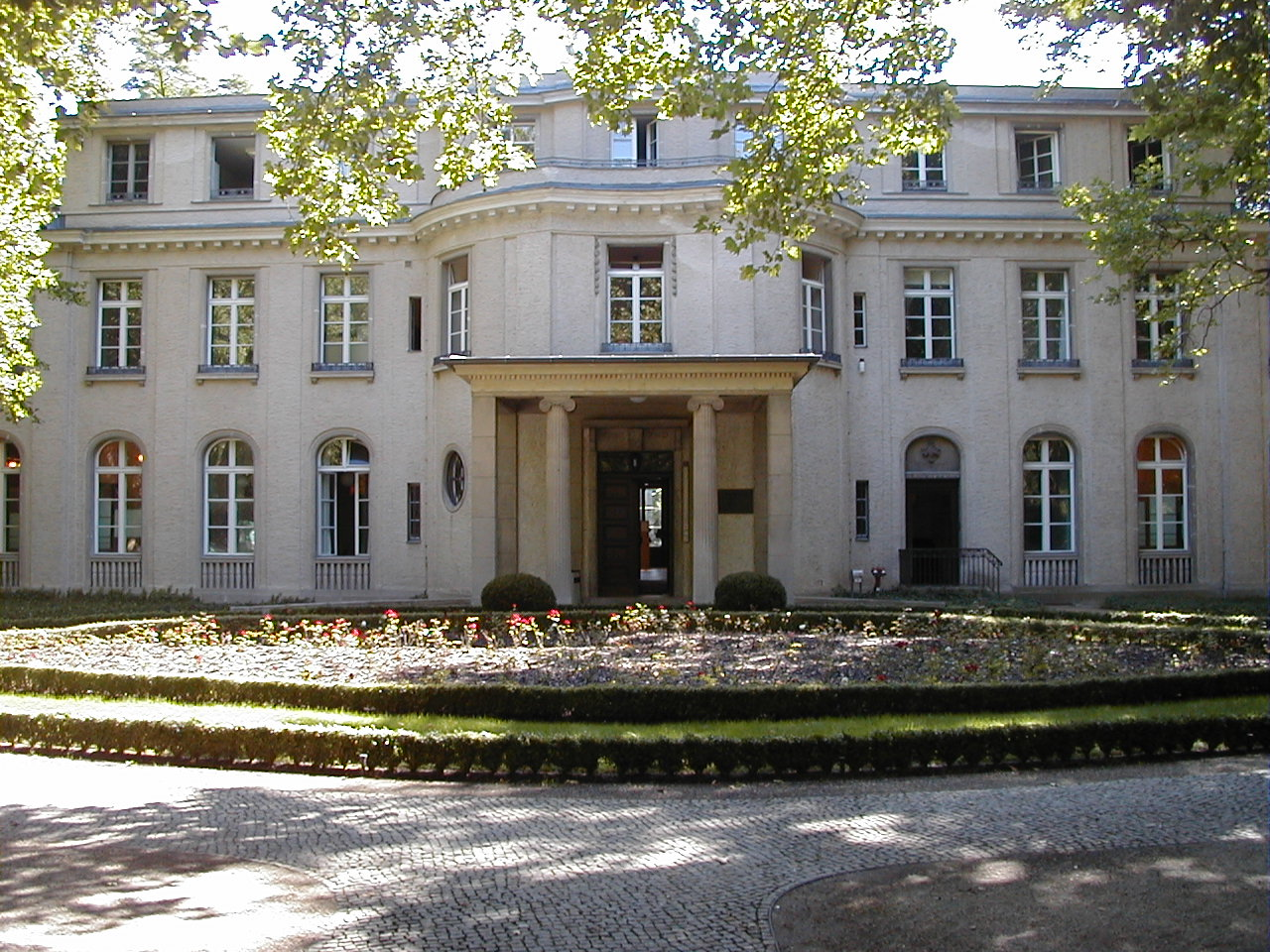 Villa an Wansee, now working as a Holocaust museum